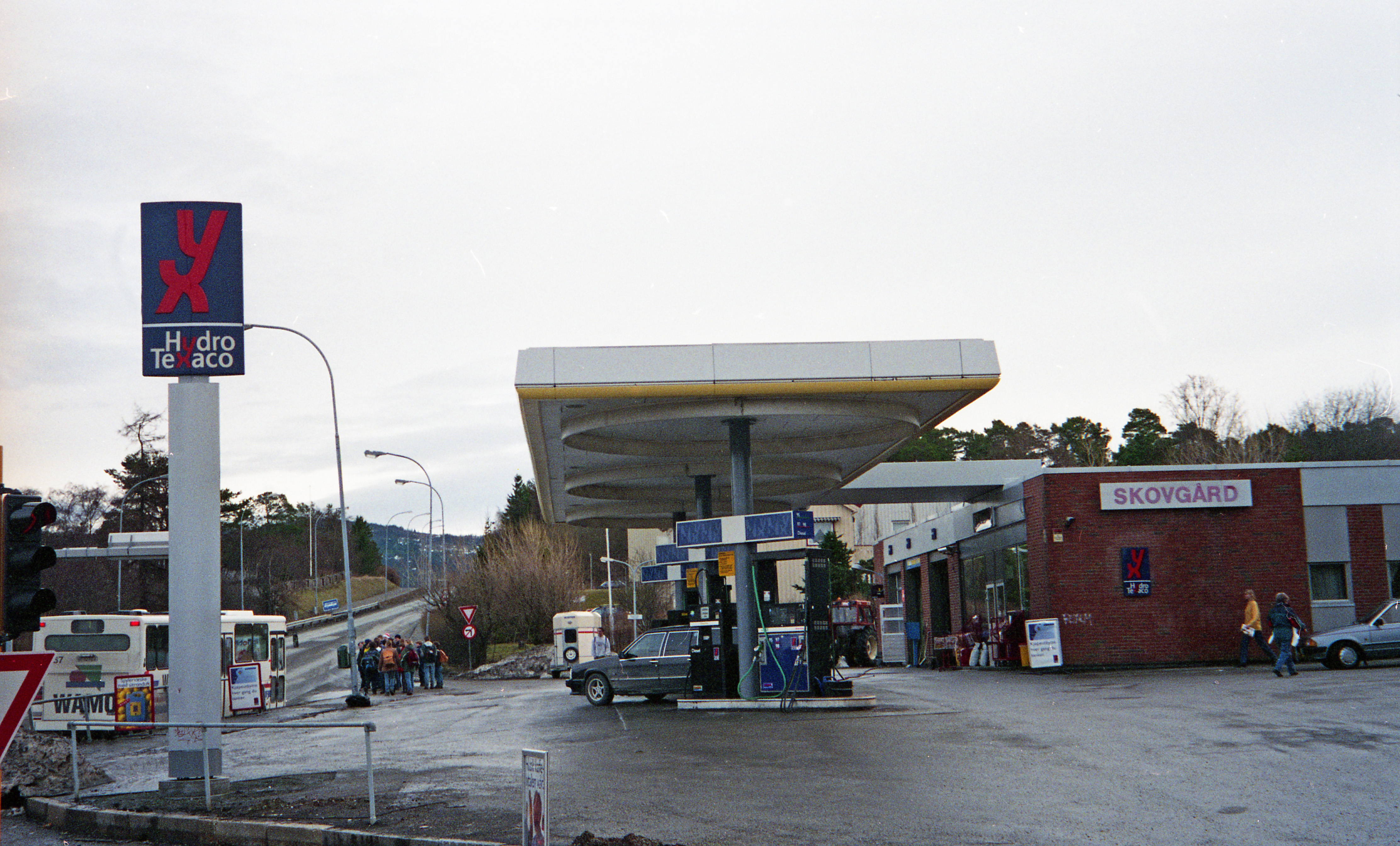 Format: Fotonegativ Film: Kodak Gold 200 Dato / Date: 23 Februar 1998 Fotograf / Photographer: Byantikvaren Sted / Place: Skovgård as, Hydro - Jakobslivegen 2, 7058 Jakobsli Google Street View: Jakobslivegen 2 Wikipedia: Hydro Texaco Eier / Owner Institution: Trondheim byarkiv, The Municipal Archives of Trondheim Arkivreferanse / Archive reference: Film 1 Negativ - F21413